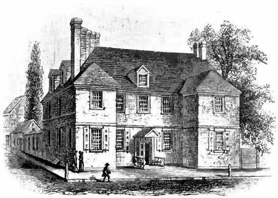 Drawing of the "Slate-roof house," in Philadelphia, Pennsylvania, on Second street, between Chestnut and Walnut, at the southeast corner of Norris's alley. The residence of Pennsylvania founder William Penn in Philadelphia where his only American-born child was born.